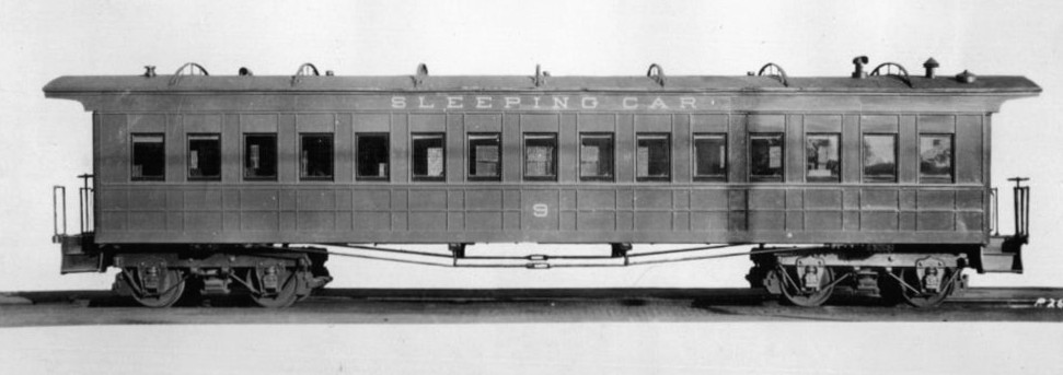 Photo of the original sleeping car pulled by the William Crooks. Both this car and the locomotive went on a 1924 exhibition tour between Chicago and Seattle.